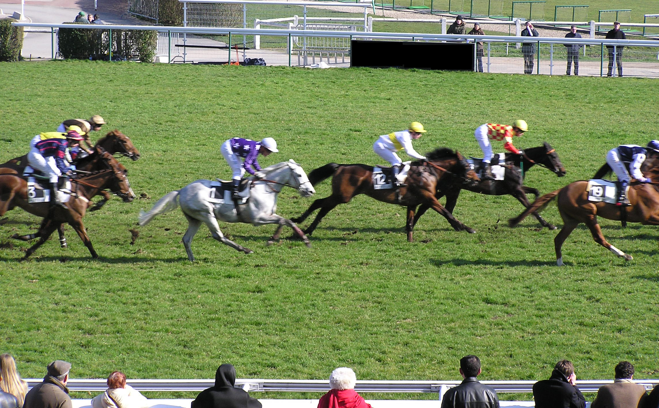 Horse-race at Auteuil hippodrome